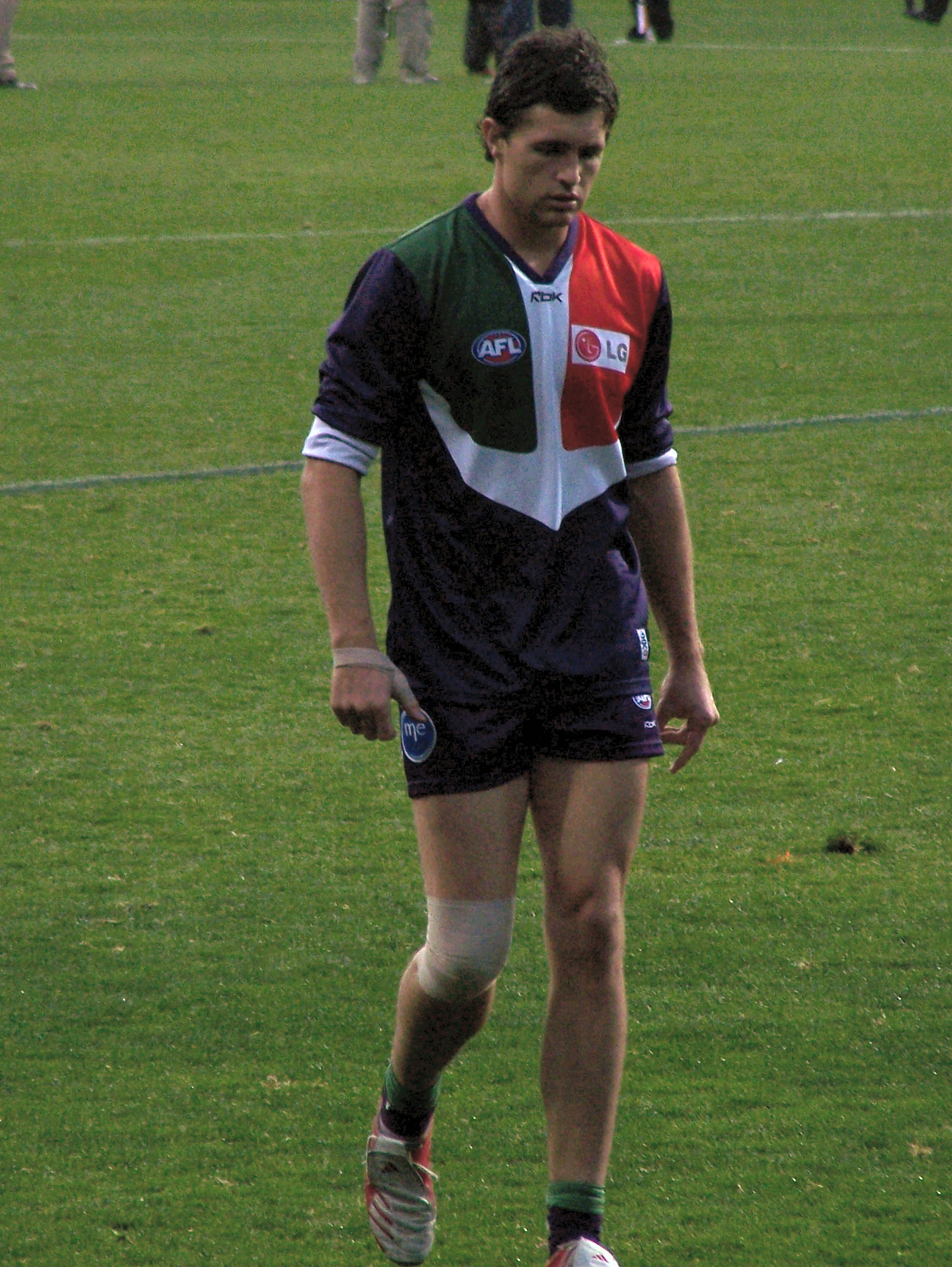 Fremantle Docker's Justin Longmuir